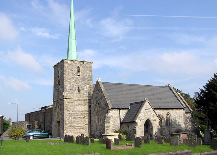 St Peter's parish church, Filton, Gloucestershire, seen from the south